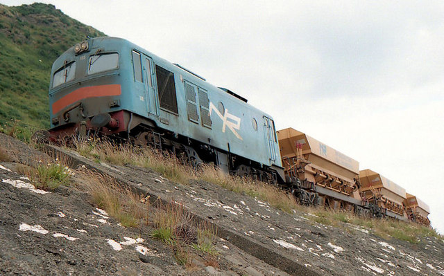 NIR Class 104 (former CIÉ 201 Class) diesel locomotive no. 105 and ballast train, standing near Whitehead, Co. Antrim, Northern Ireland.